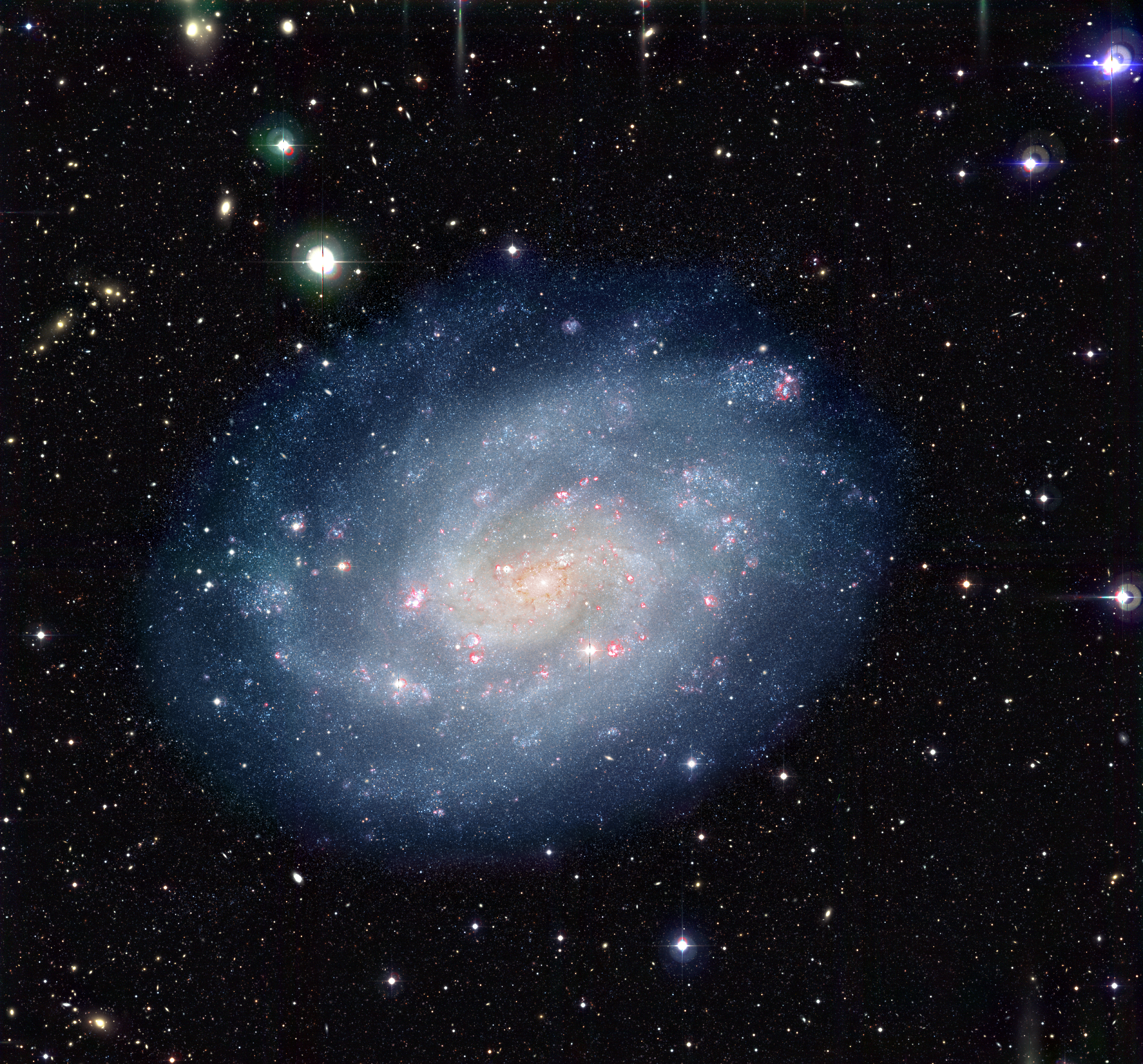 Colour-composite image of the nearby spiral galaxy NGC 300 and the surrounding sky field, obtained in 1999 and 2000 with the Wide-Field Imager (WFI) on the MPG/ESO 2.2-m telescope at the La Silla Observatory. ID: phot-18a-02 Object: NGC 300 Telescope: 2.2m Instrument: WFI Size: 4000x3722 Credit: ESO